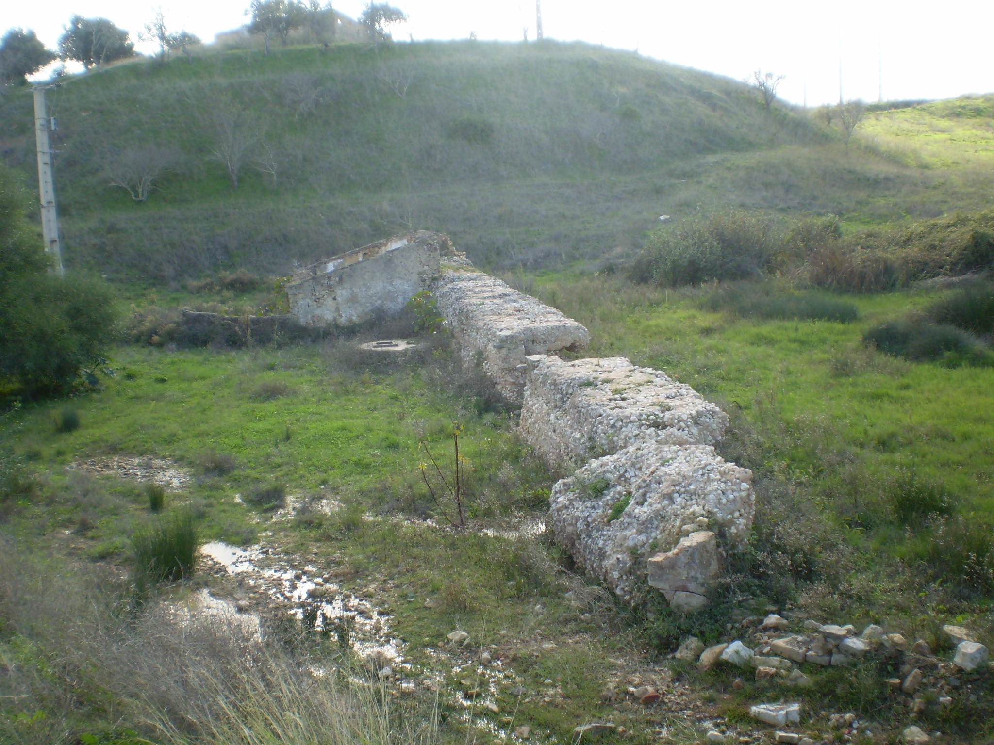 Fonte Coberta roman dam, near Modelo supermarket of Lagos, in southern Portugal.